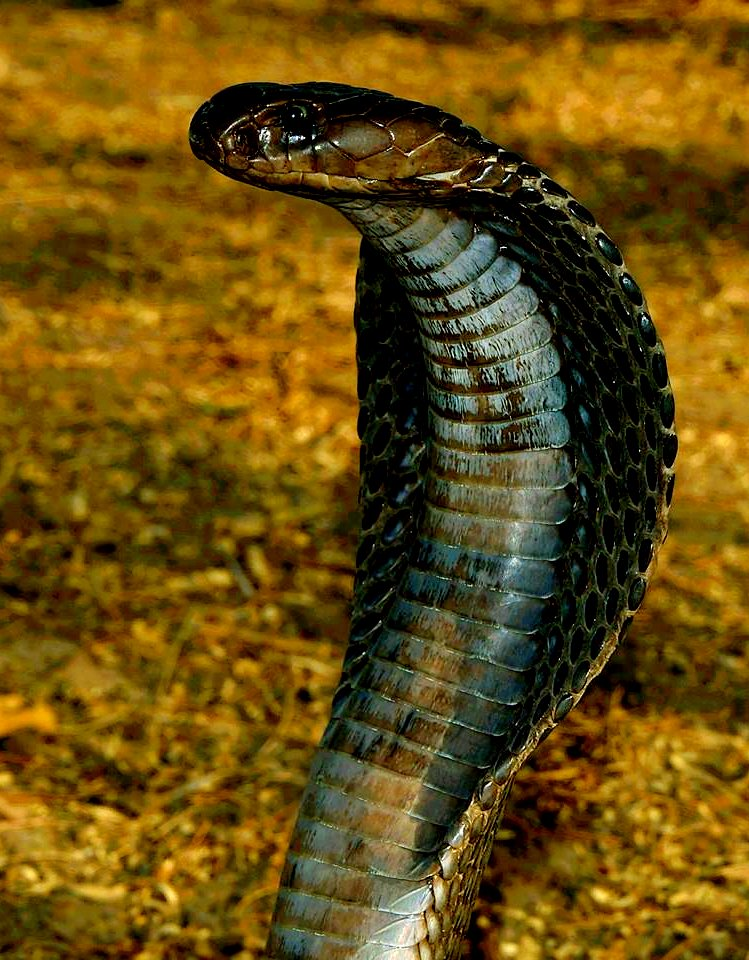 Indian Spectacled cobra (Naja naja)